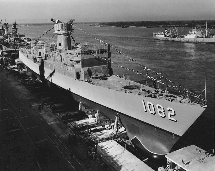 The U.S. Navy destroyer esccort USS Elmer Montgomery (DE-1082) just prior to launching at the Avondale Shipyard at Westwego, Louisiana (USA), on 21 November 1970. Note the large dome for the AN/SQS-26 sonar.